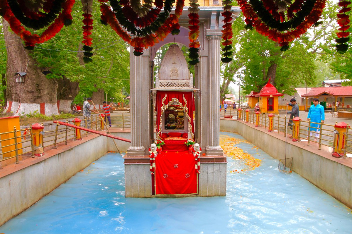 Kheer Bhawani inside the holy spring